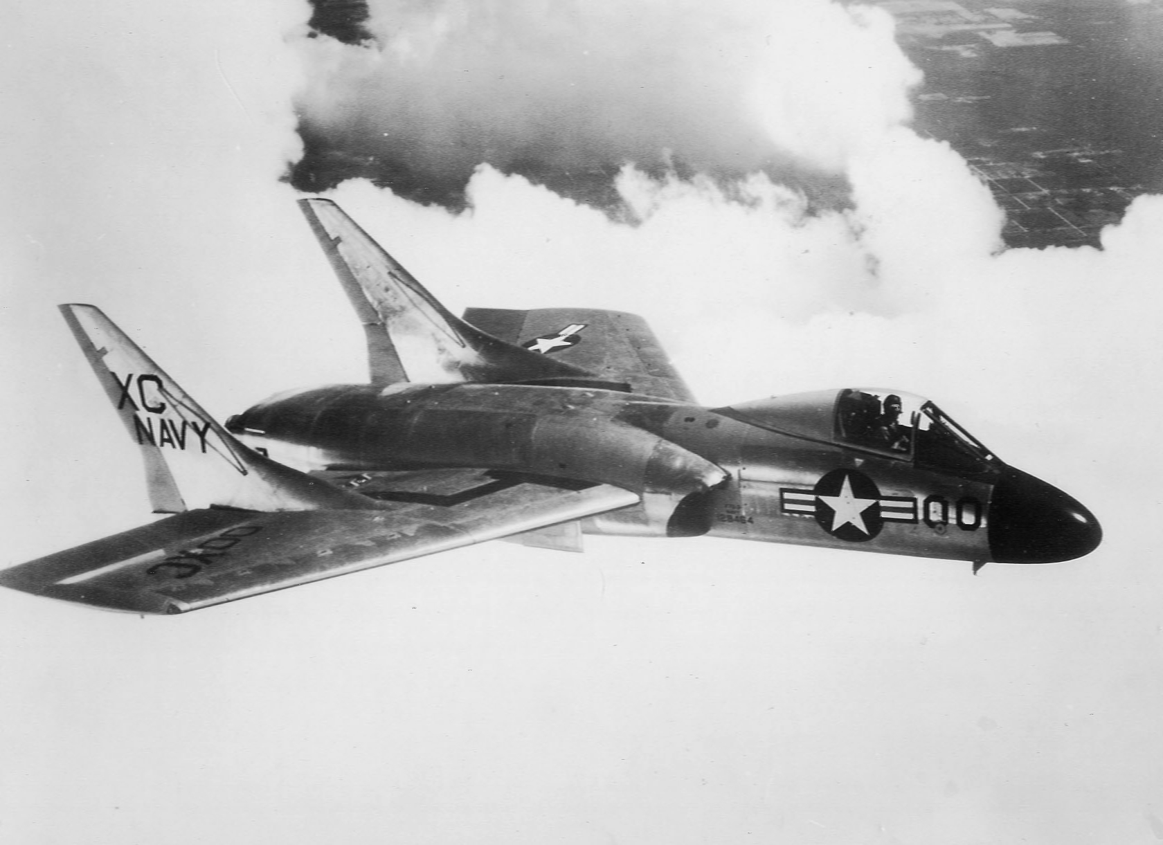 A U.S. Navy Vought F7U-3 Cutlass (BuNo 128464) from Air Development Squadron VX-3 out of Naval Air Station Atlantic City, New Jersey (USA), in flight.